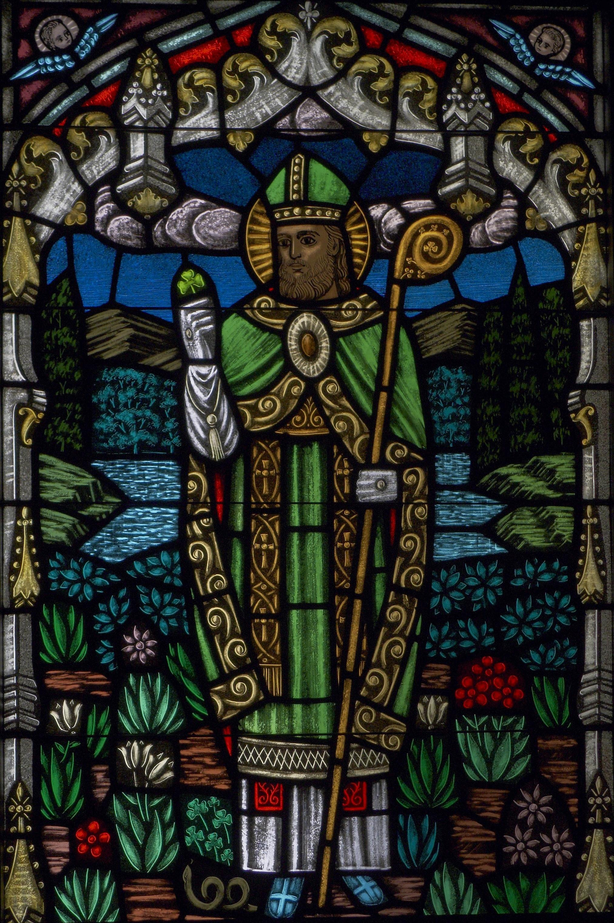 Saint Patrick stained glass window. Original description from Flickr: All Saints Episcopal Church, San Francisco, CA